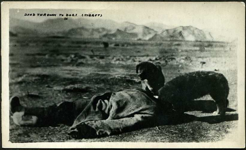 Postcard written : "Dead thrown to dogs (Tibbet)", probably in the early XXth century (author, exact location and date are not known)